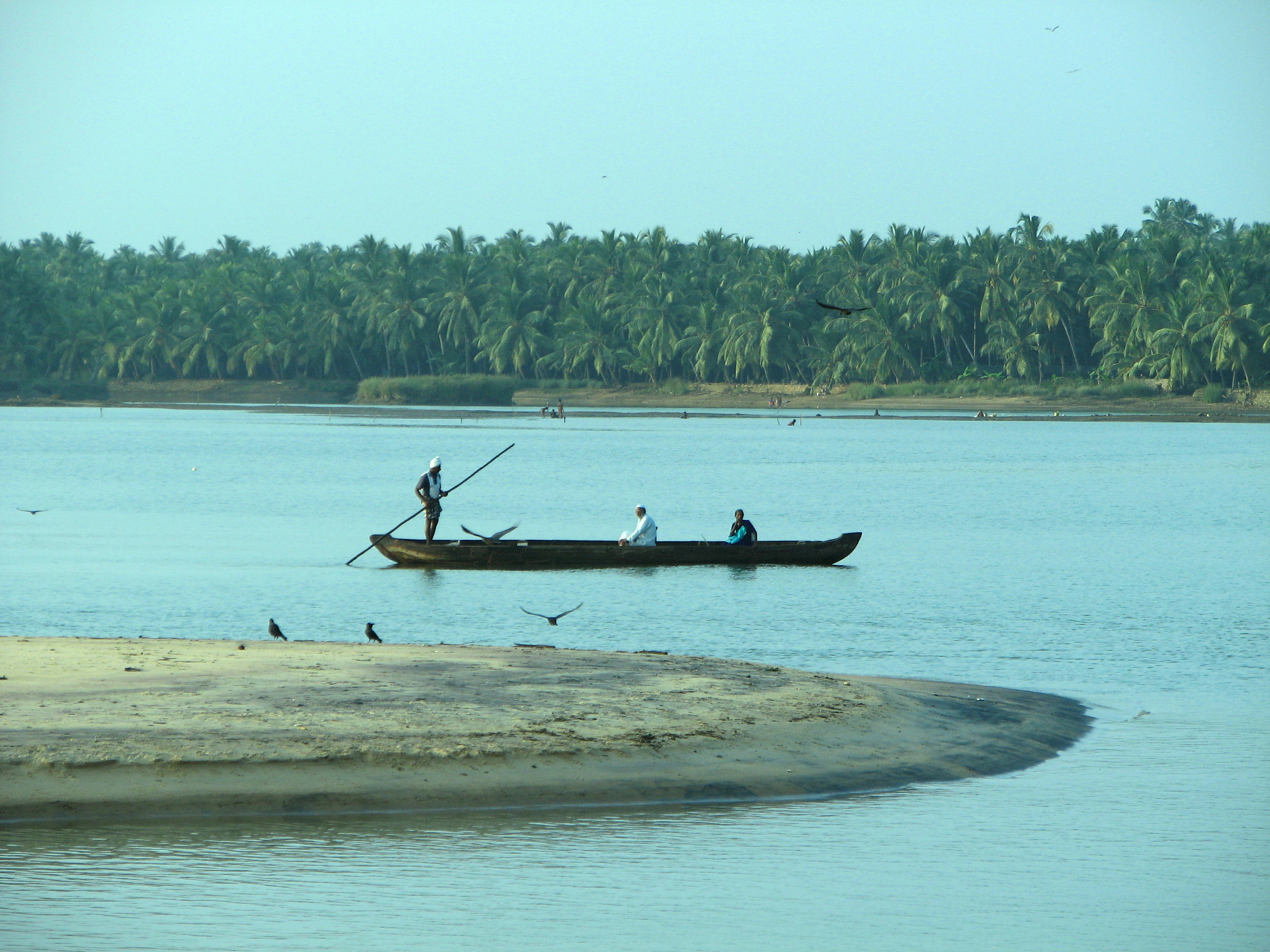 Thengapattnam - Ferry Across The Estuary